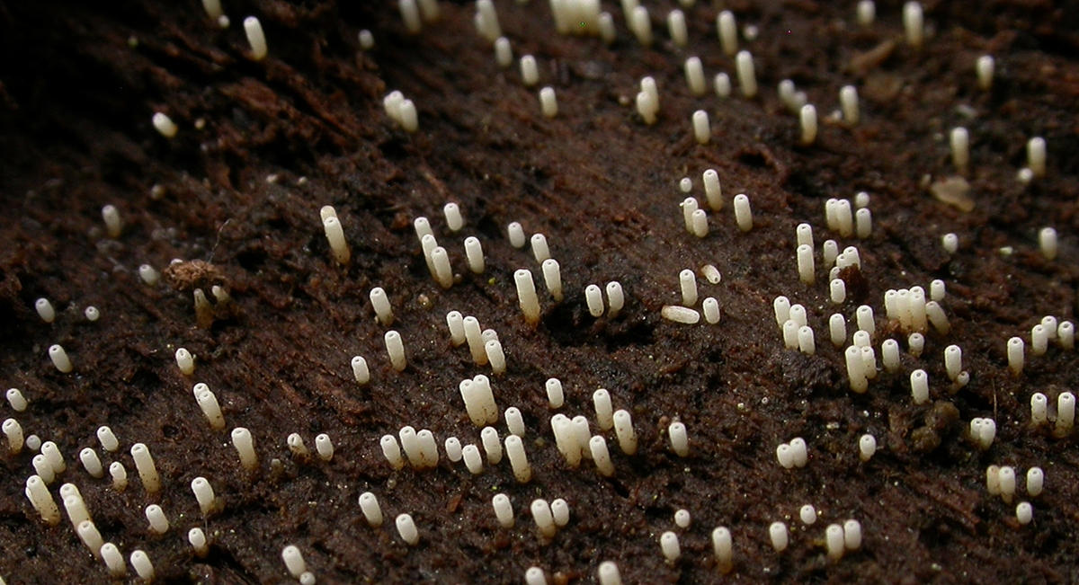 The fungus Henningsomyces candidus (Persoon) Kuntze. Photographed in Hayward, Alameda Co., California, USA.